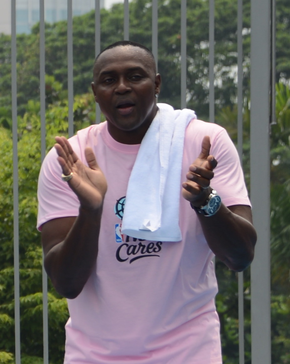 Ambassador Blake joined with the NBA’s community outreach initiative, NBA Cares, on Thursday, Sept 4th at the Embassy basketball court, to help promote basketball in Indonesia and support the efforts of the Special Olympics. The Ambassador spoke about the effectiveness of sport in bridging cultural divides to an audience of 30 Special Olympics athletes just before opening the event by firing off a jumpshot of his own. NBA legends Horace Grant and A.C. Green led the coaching clinic and later fielded questions from members of the local media. Photo Credit: State Dept./Budi Sudarmo